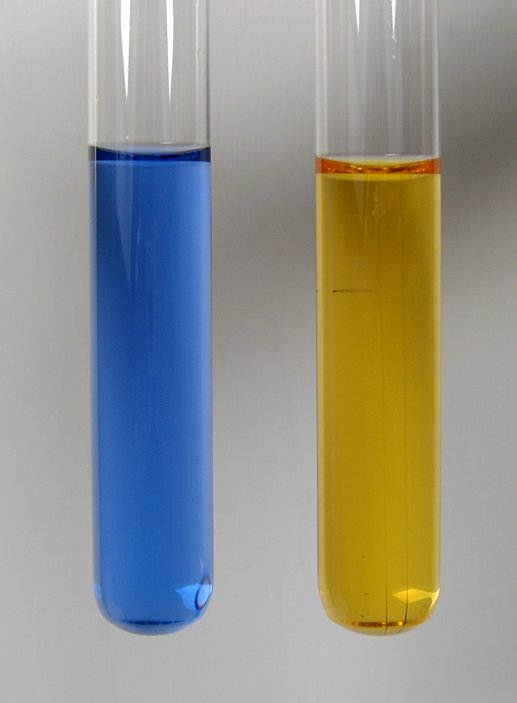 solution of Tetraamminonickel(II)-sulfate (left) and potassium tetracyanonickelate(II) (right)